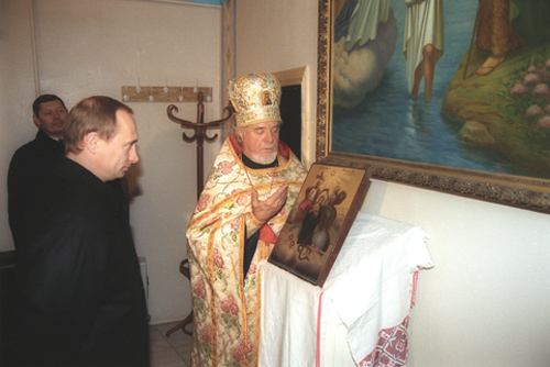 MOSCOW. At the Church of the Life-giving Trinity on the Vorobyovy Gory (Sparrow Hills).